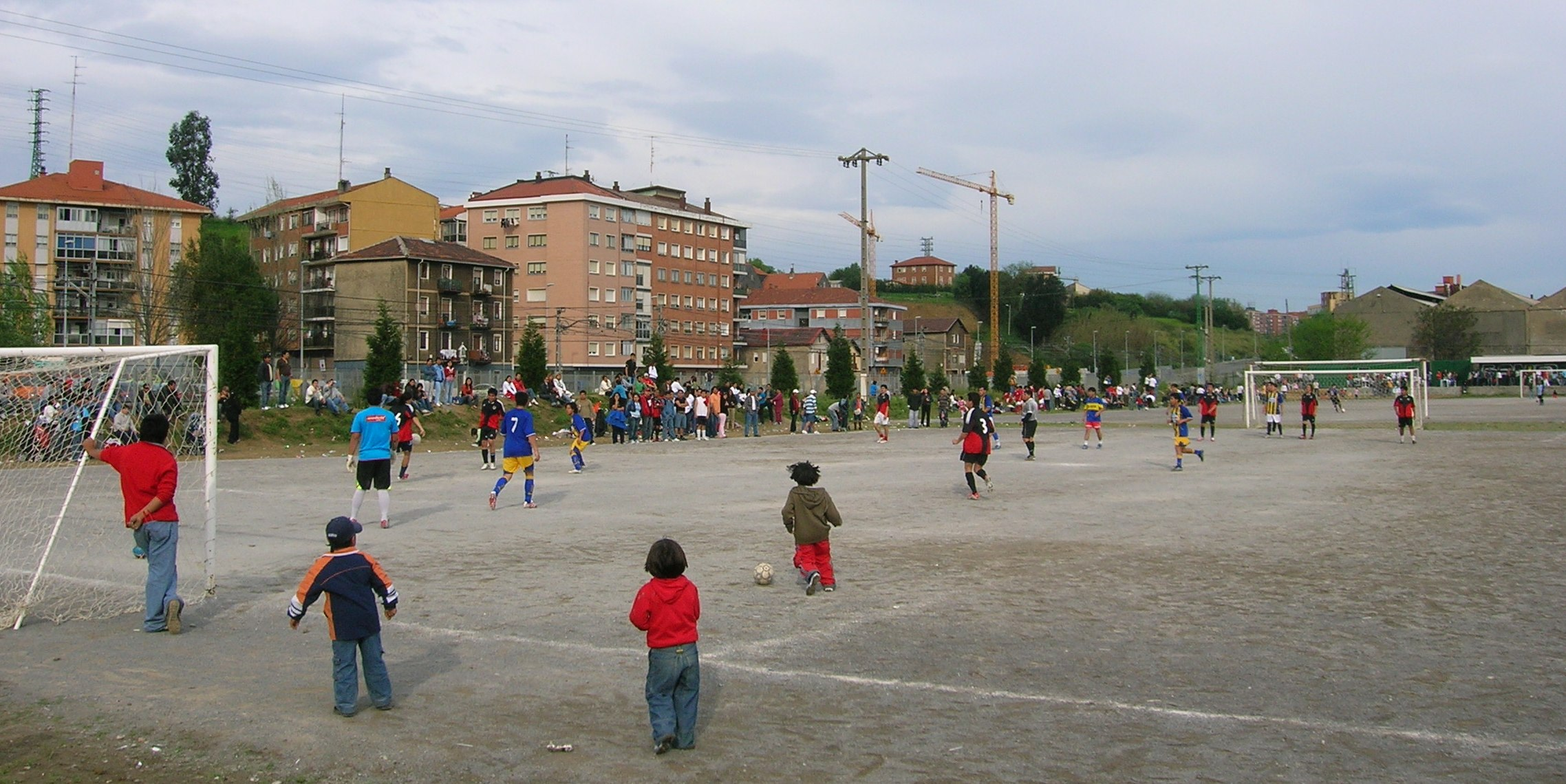 Soccer football match near La Chopera - Txopoeta, Lamiaco-Lamiako, Lejona-Leioa, Biscay. Lamiaco fields were the first placed where the British played football against the Biscayne in the XIX century, thus being one of the first places to hold football matches in Spain. Currently there still are football fileds in the neighbourhood, visited by crowds every weekend.